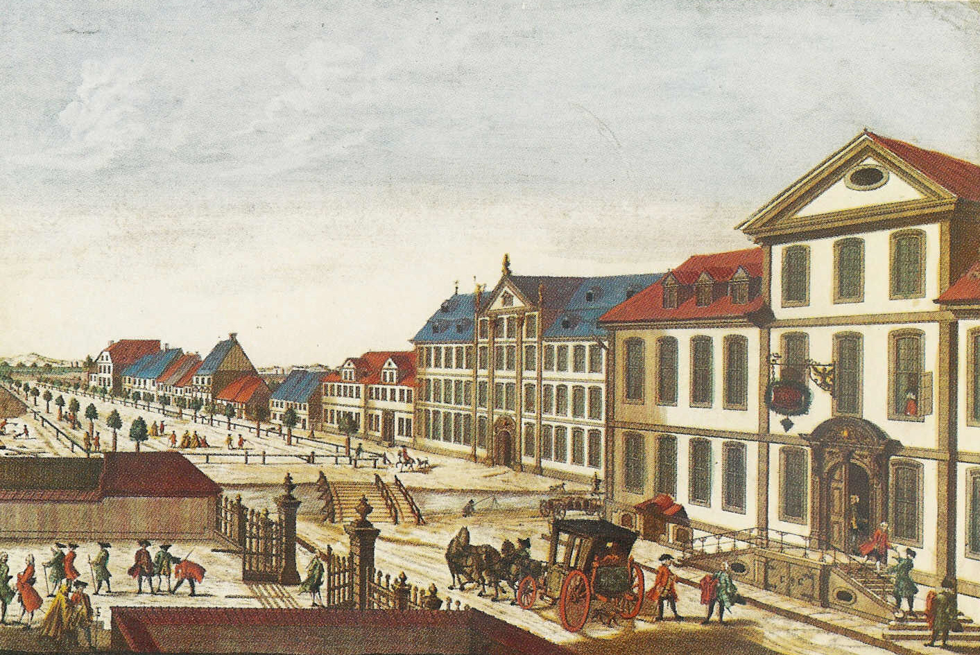 coloured copper engraving of Michaelishaus (right), building of Göttingen university, and "The Alley" (left, background), colorierter Kupferstich des Michaelishauses (rechts), Gebäude der Universität Göttingen, und der "Allee" (links im Hintergrund, heute Goetheallee)